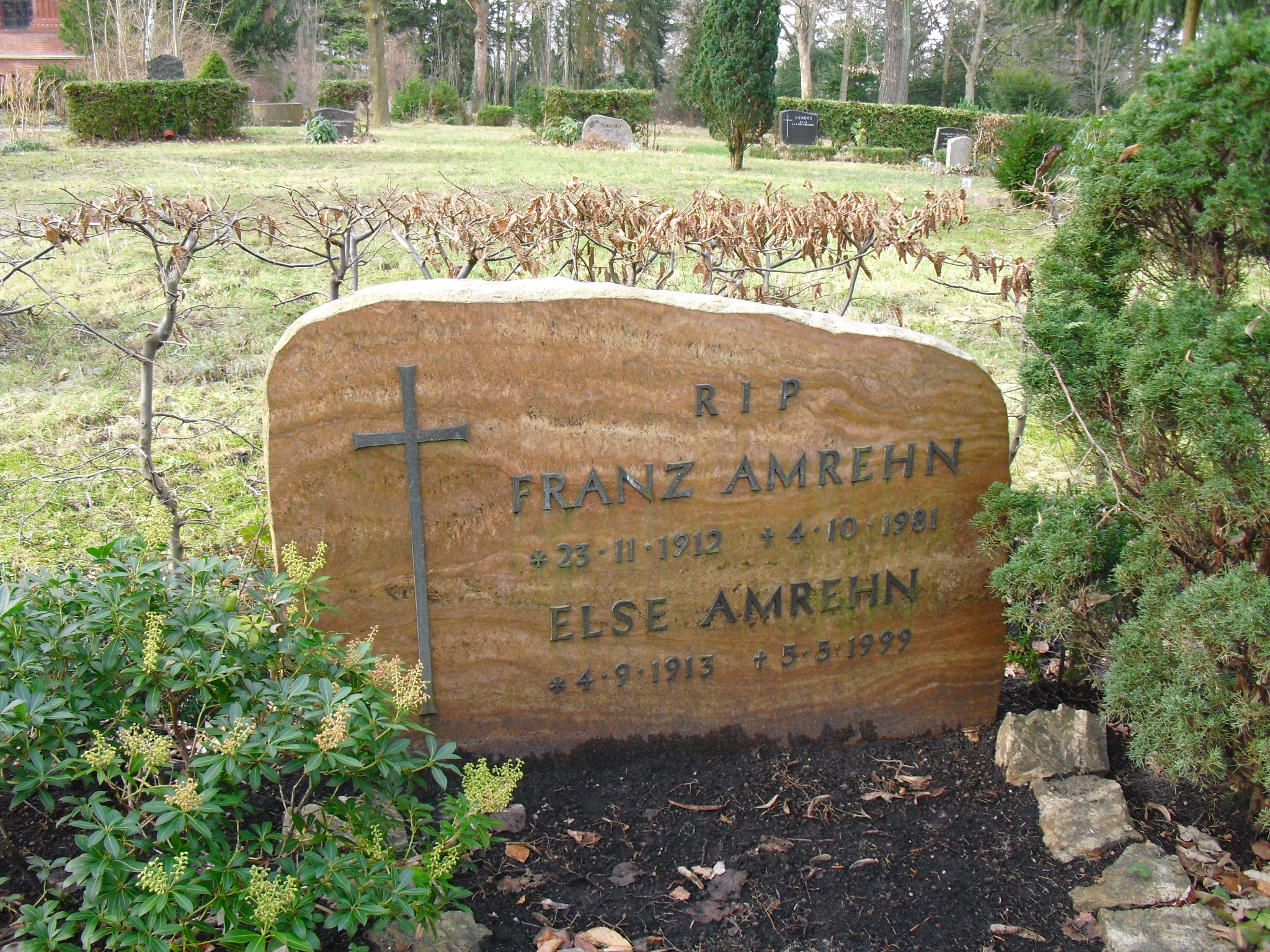 Grave of politician Franz Amrehn in Friedhof Steglitz, Berlin-Steglitz